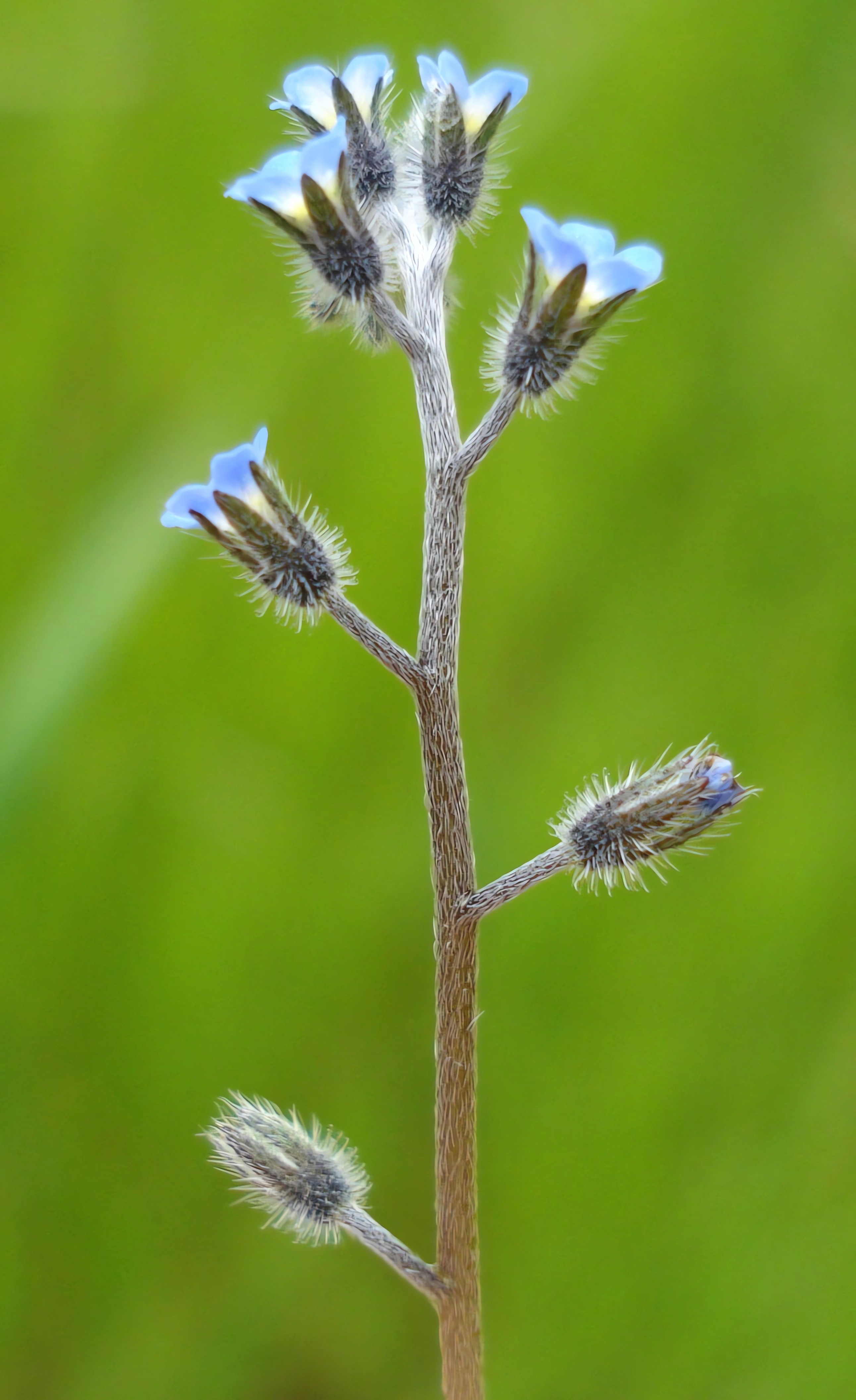 Myosotis ramosissima (Unterfranken, Germany)